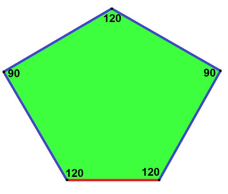 face